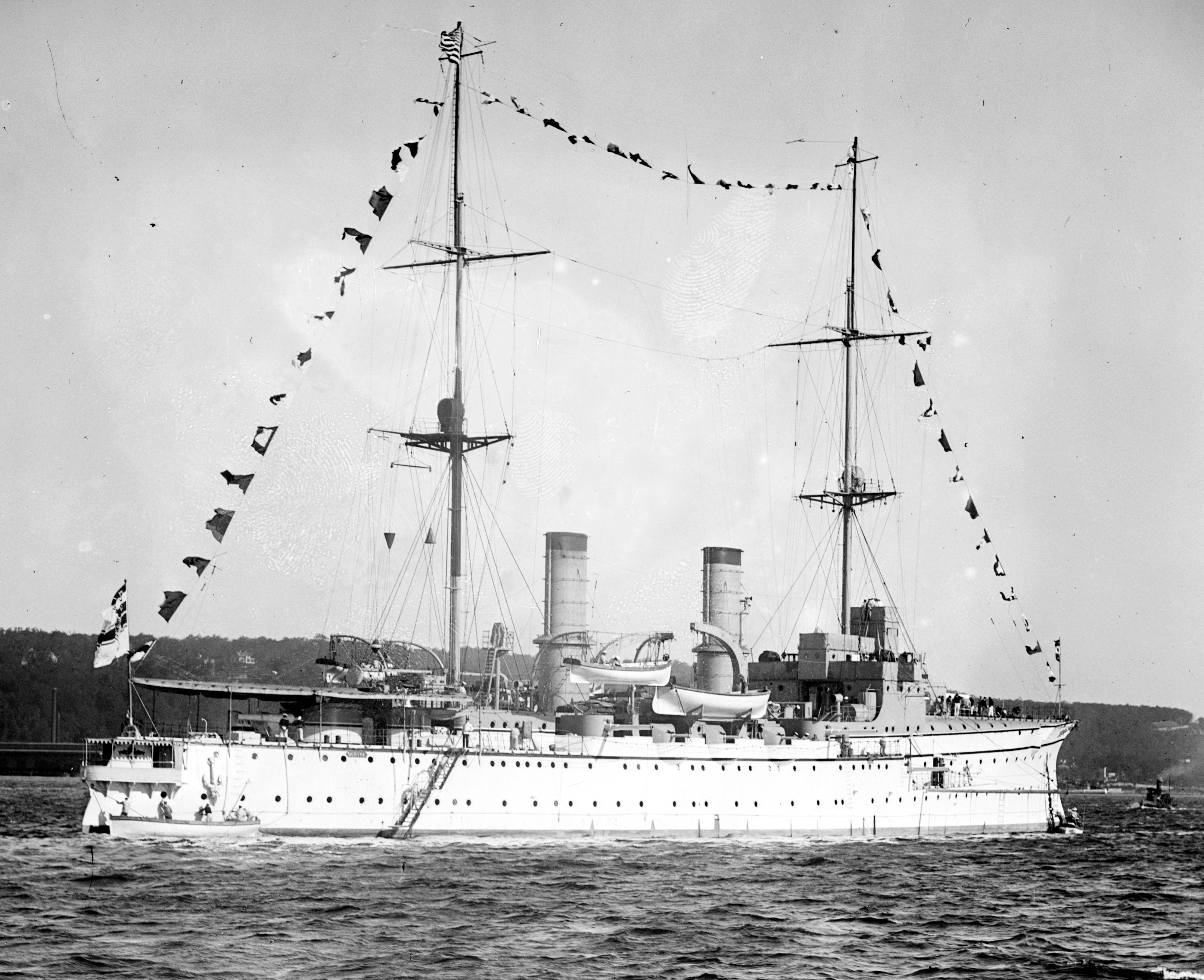 The German protected cruiser SMS Hertha, probably photographed in 1909 during visit to New York City (USA).